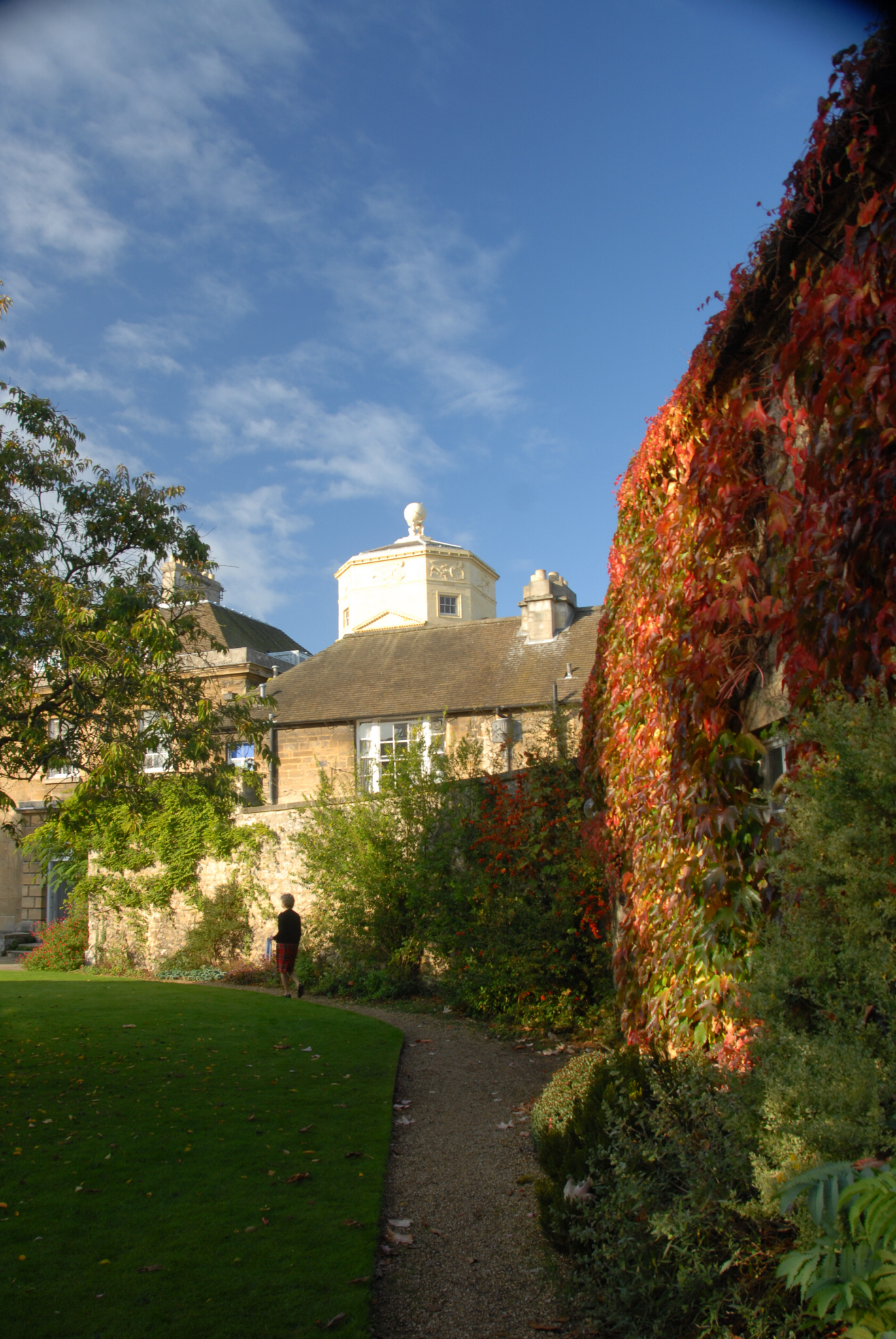 Observer's House and the Radcliffe Observatory from the McAlpine Quad, Green Templeton College, Oxford